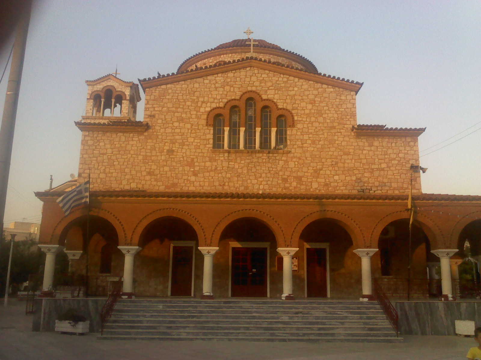 Church Estavromenos Tavros